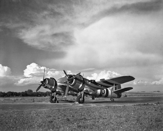 AWM Caption: NORFOLK, ENGLAND. C. 1944-07. BEAUFIGHTER AIRCRAFT OF NO. 455 SQUADRON RAAF WITH COASTAL COMMAND, AT RAF STATION LANGHAM, READY FOR OPERATIONS AGAINST ENEMY CONVOYS.